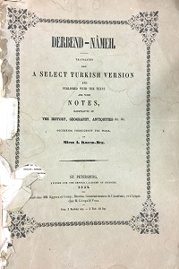 Derbendname